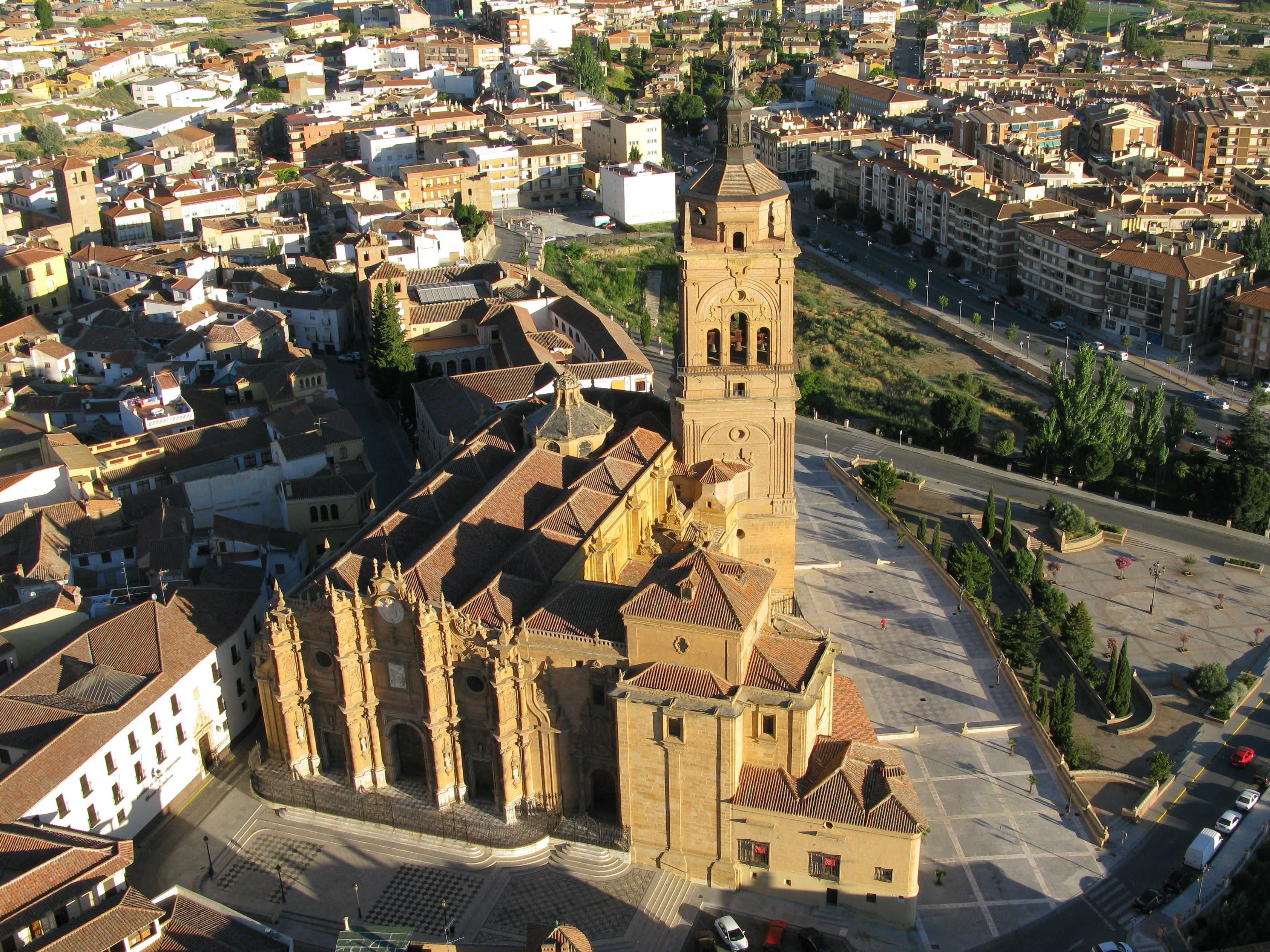 Guadix Cathedral (Spain) taken from a hot air balloon in August 2011